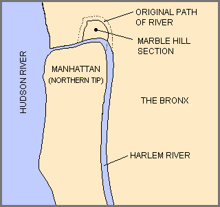 Map of northern Manhattan showing Marble Hill section